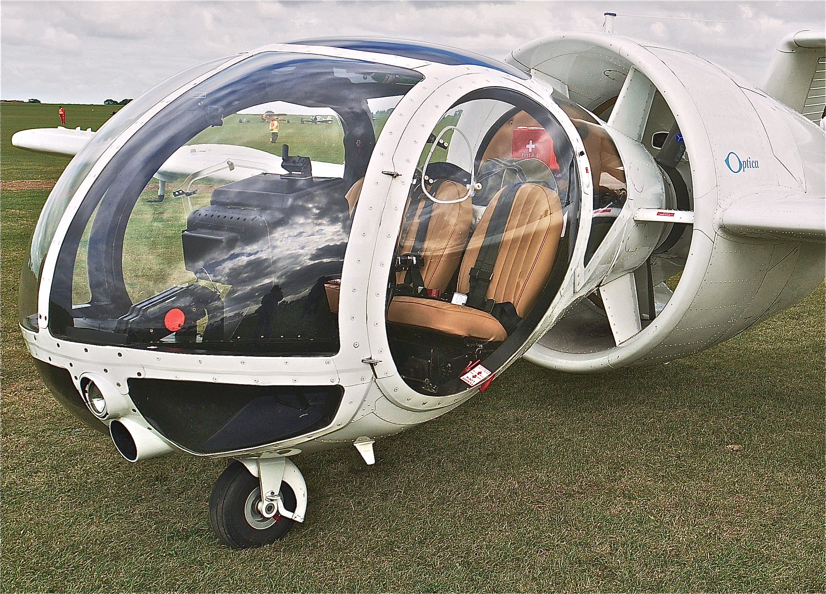 Edgley Optica aircraft. Photographed with a Panasonic G1.